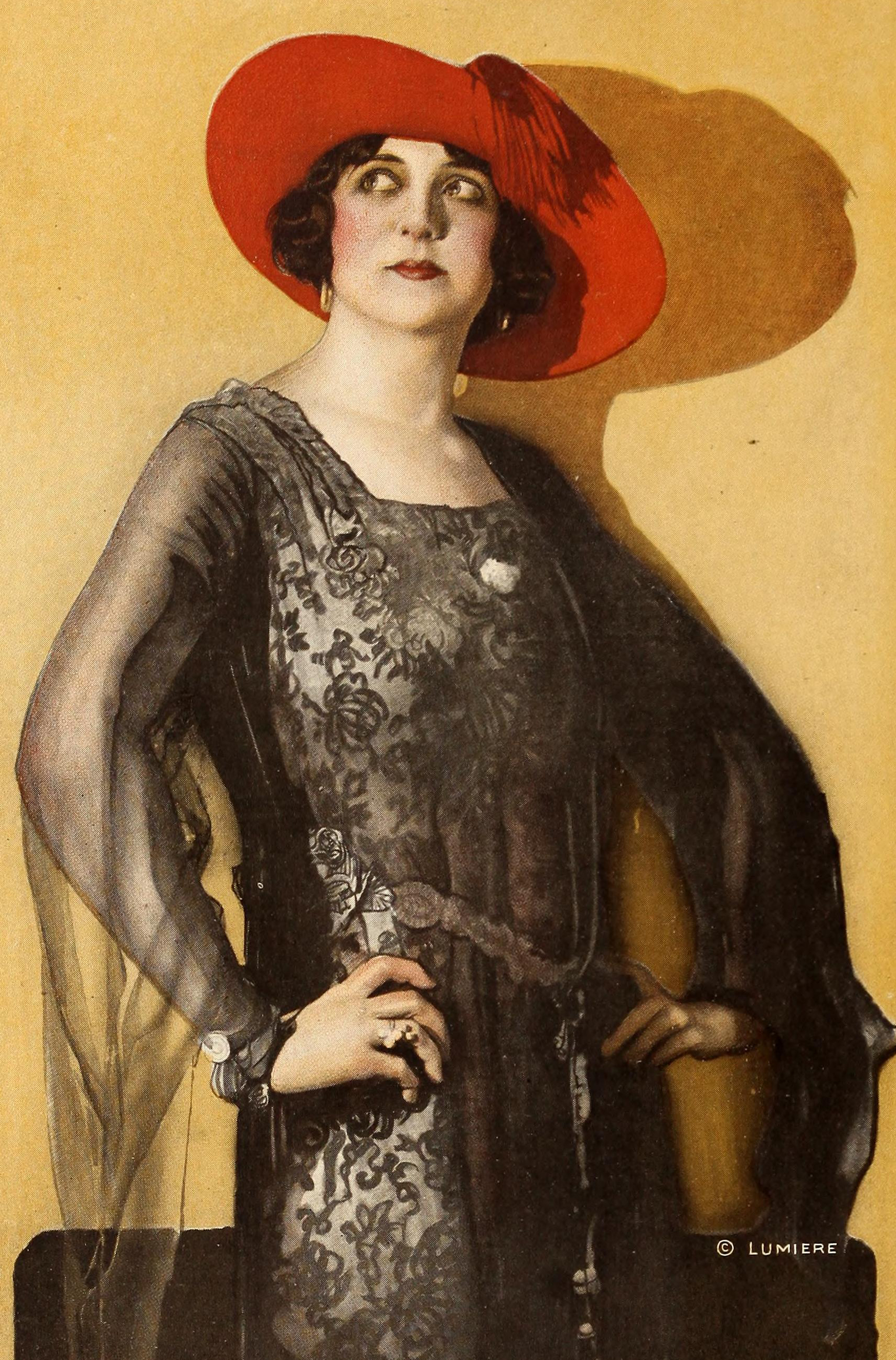 From an advertisement in Motion Picture News for the film Unknown Love (1919).